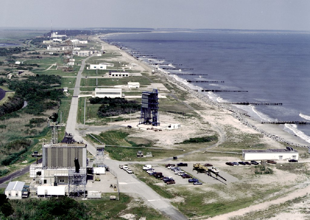 Wallops Island